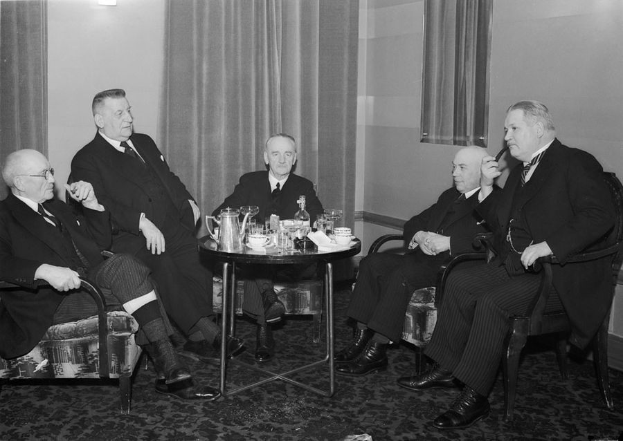 The remaining members of the 1917 independence senate (government) gathered annually. Present at the time of the Winter War 4.1.1940 were (from the left) Juhani Arajärvi, Heikki Renvall, Jalmar Castren, Alexander Frey and O.W. Louhivuori. Senators Onni Talas, Arthur Castren and Eero Pehkonen send their compliments. The presidents who had belonged to the Senate, Kyösti Kallio and P.E. Svinhufvud, were busy with the struggle of the Winter War.